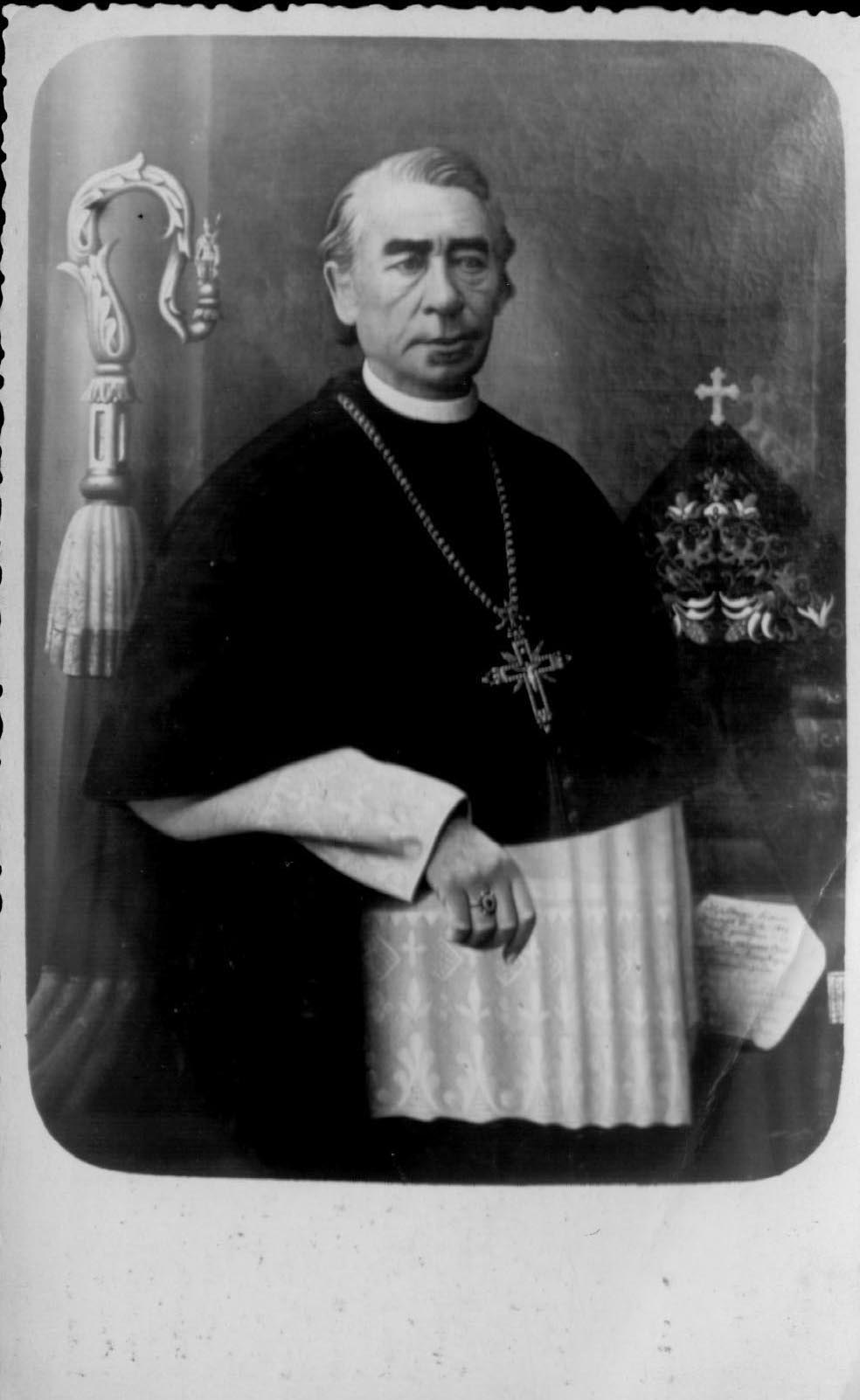 Ilija Okrugić Sremac, pastor of Petrovaradin